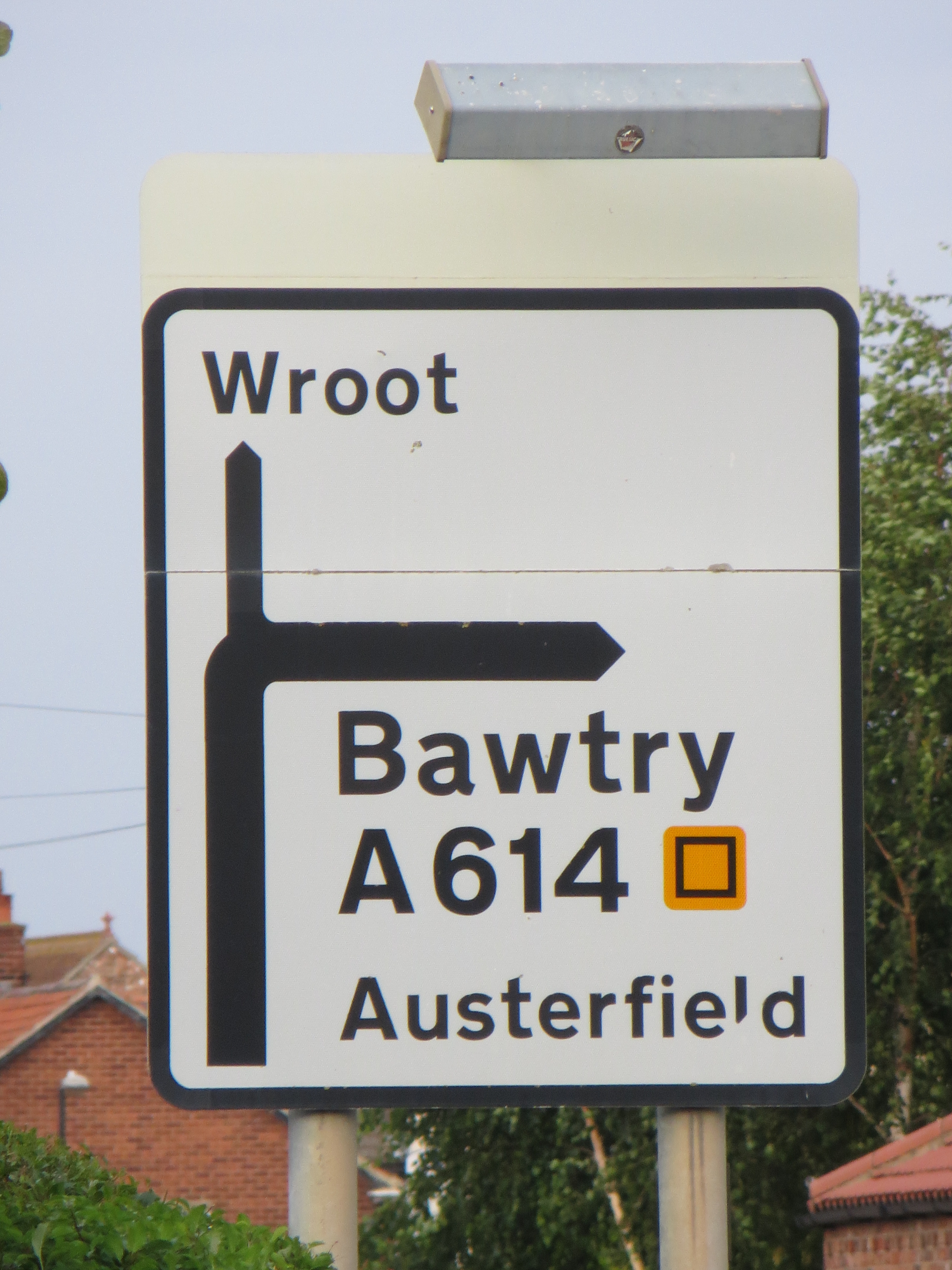 Diversion route sign on A614 in Finningley, Yorkshire